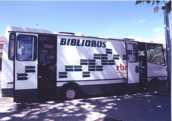 Bibliobús